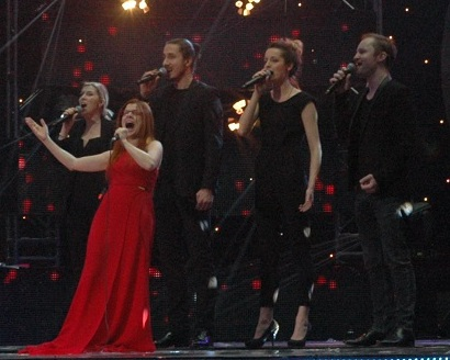 Polish singer Dorota Osińska during rehearsals for performance in Polish National Final of ESC 2016